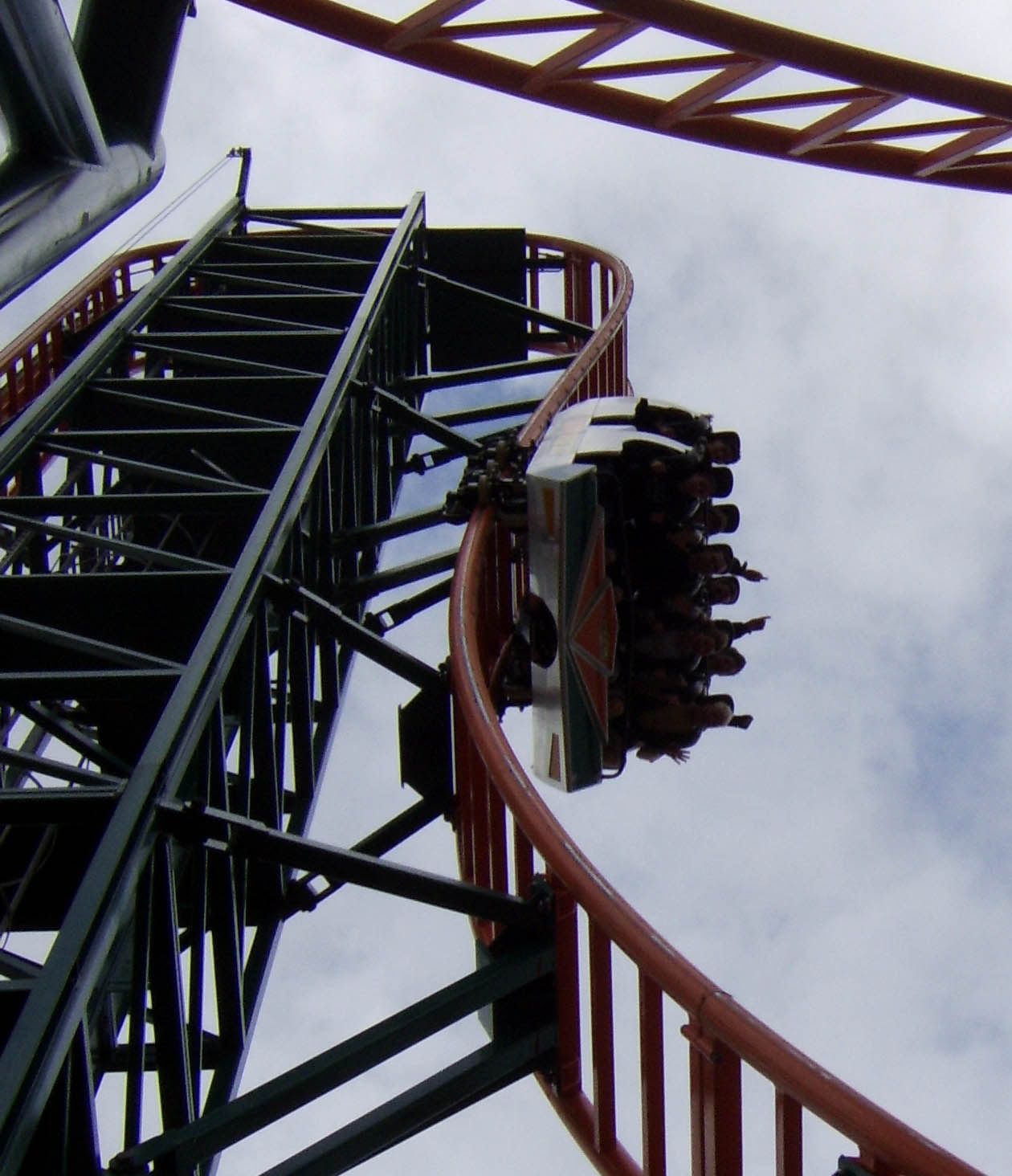 Speed: No Limits at Oakwood Theme Park. Taken June 2006